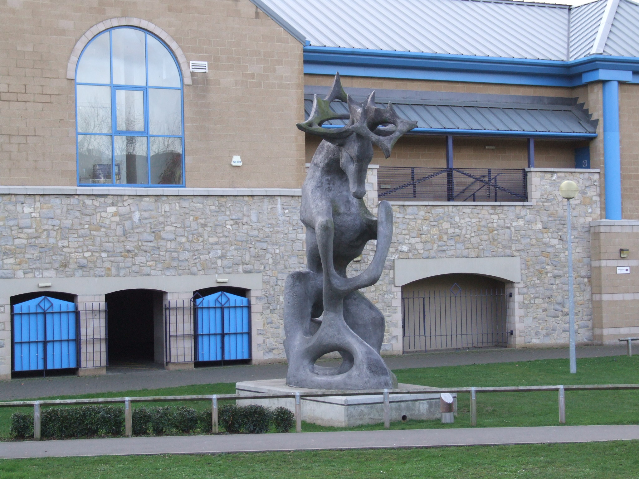 The Stag, by Edward Bainbridge Copnall, outside the Locksmeadow Centre, in Maidstone, Kent.